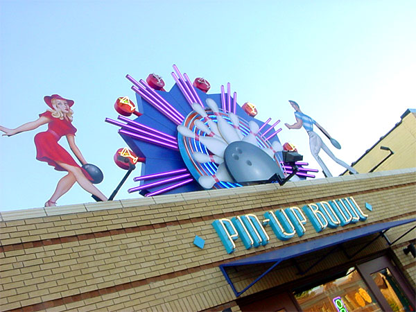 Pin-Up Bowl, Delmar Loop, Missouri